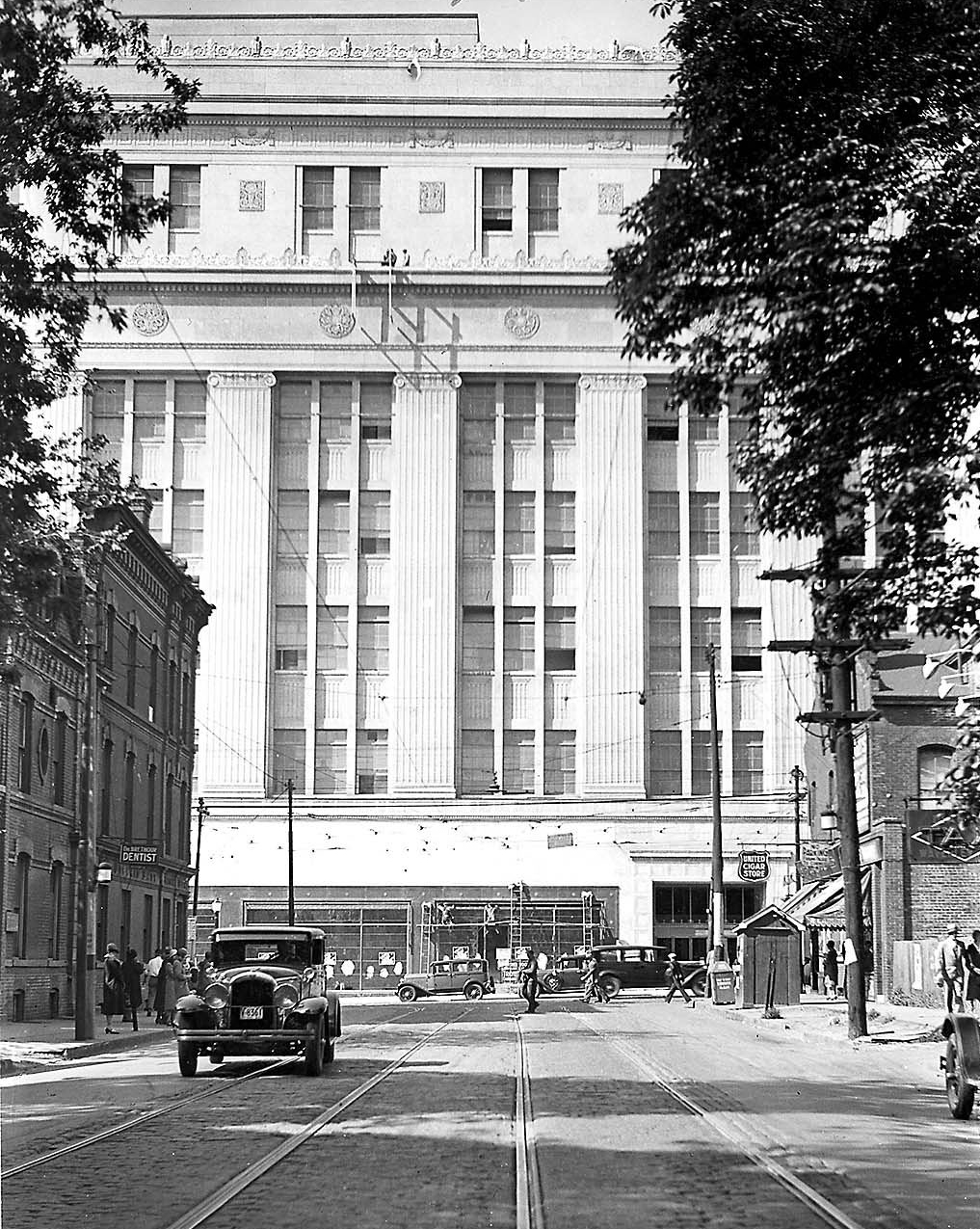 View of Eaton's College Street store under construction, from Carlton Street. Photo taken before Carlton Street was realigned to meet College Street at Yonge Street.